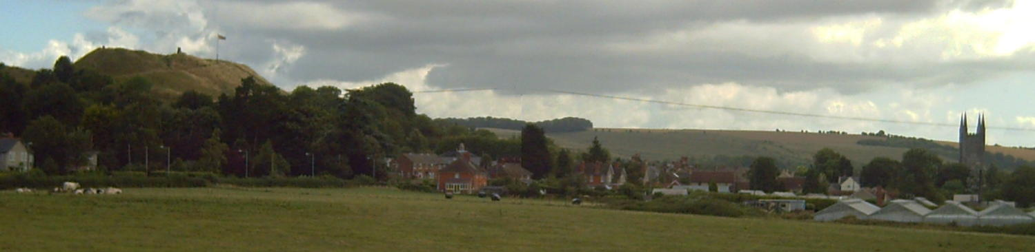 Castle Hill and St Michael the Archangel church.